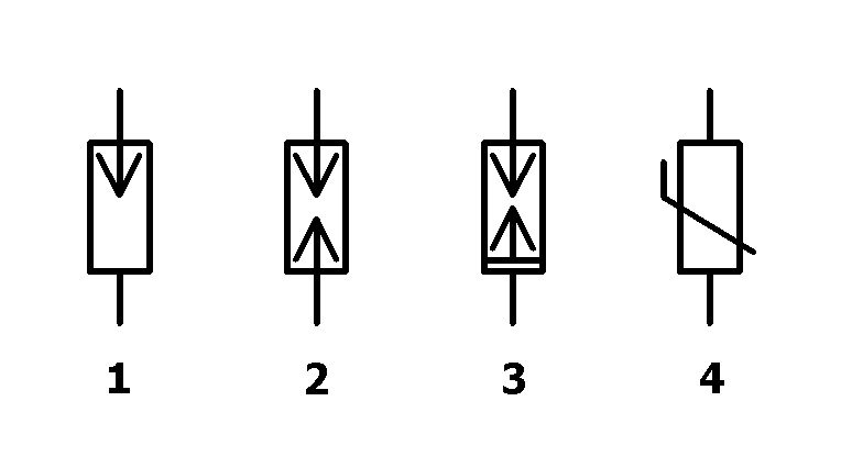 Spark gap (schematic symbol)